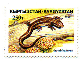 Stamp of Kyrgyzstan (Asymblepharus sp.)